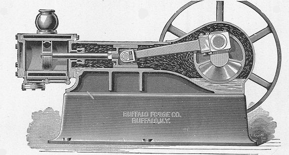 Buffalo horizontal steam engine (New Catechism of the Steam Engine, 1904).jpg